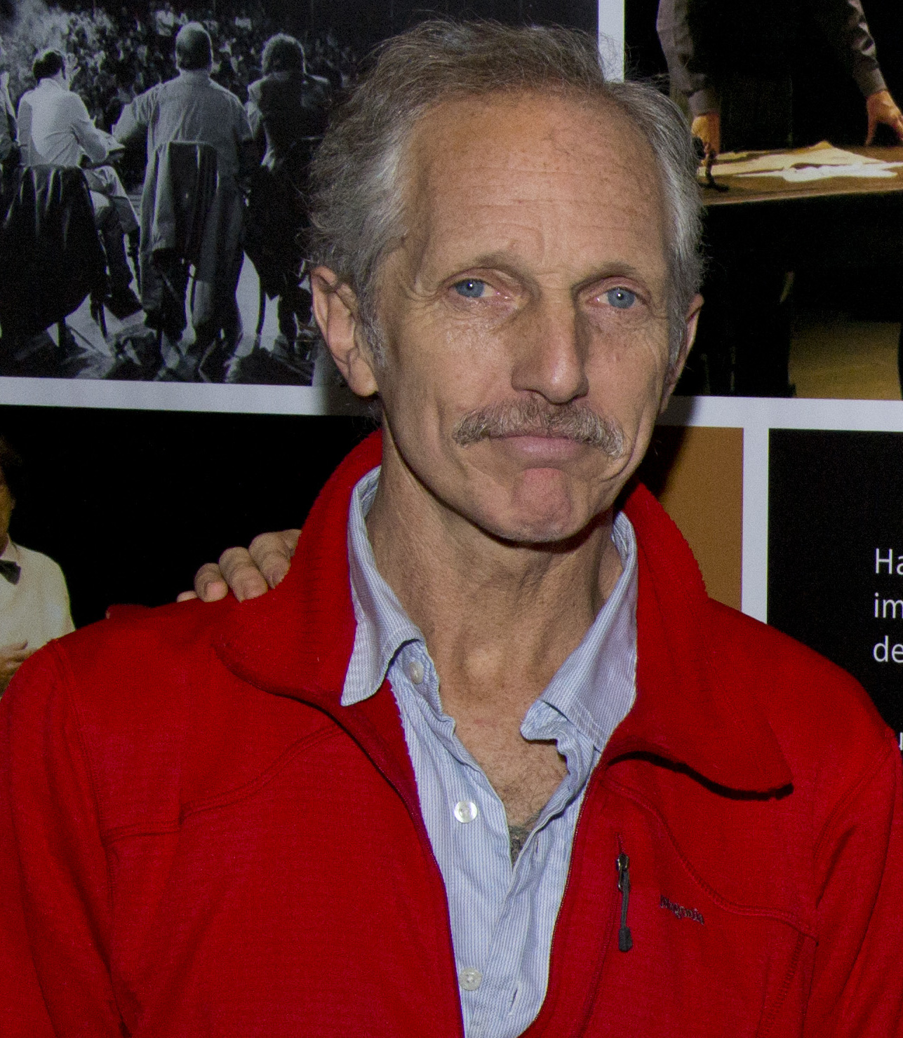 Buenos Aires, 15 de julio de 2014.- Olmi y Piroyansky conmemorando los 30 años del nacimiento de Teatro Abierto.